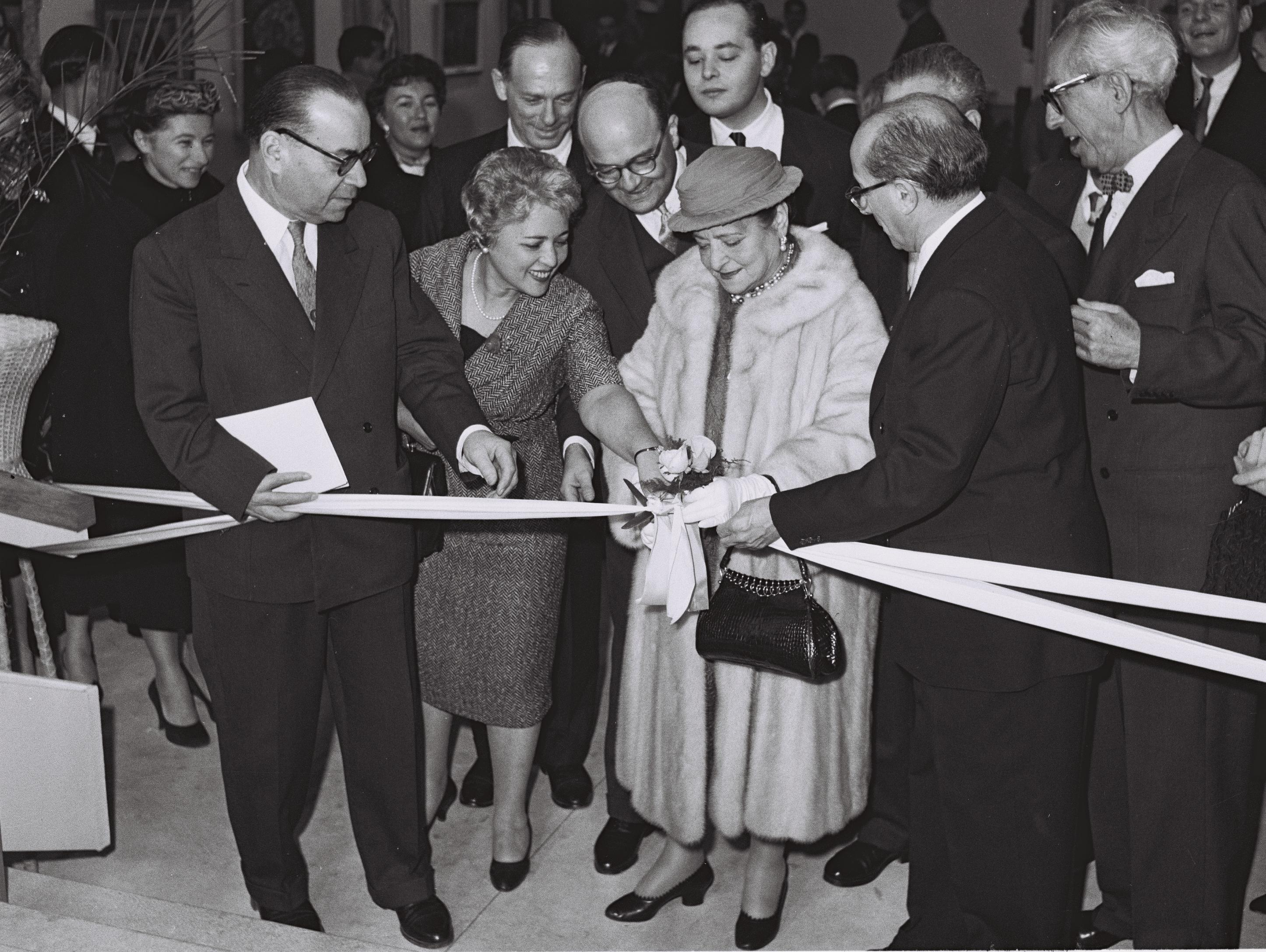 Helena Rubinstein cut the ribbon at the opening of an art gallery in her name at Tel Aviv Museum. January 1959